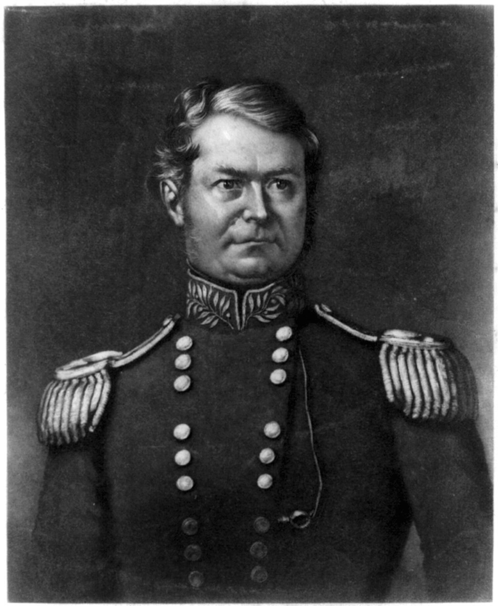 William Jenkins Worth, 1794-1849. Steel engraving by J. Sartain. CALL NUMBER: BIOG FILE - Worth, William Jenkins, 1794-1849 [item] [P&P] REPRODUCTION NUMBER: LC-USZ62-77230 (b&w film copy neg.) RIGHTS INFORMATION: No known restrictions on publication. SUMMARY: Half lgth., facing right. MEDIUM: 1 print : steel engraving. NOTES: Steel engraving by J. Sartain. Copyrighted by G.R. Graham. This record contains unverified data from caption card. Caption card tracings: A/P/P I.; BI; Publ. Ind.; Shelf. Worth, William Jenkins, 1794-1848 [army officer].